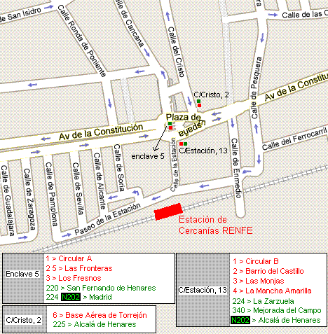 Bus lines and their stops near Torrejón de Ardoz railway station